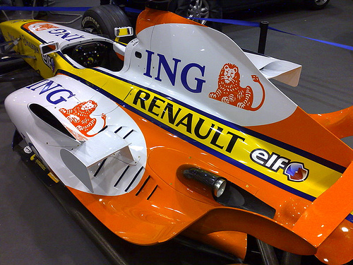 Formula 1 car (Photo taken on my Nokia N95 mobile phone. I wonder if mine is faulty as the quality doesn't seem very good, not compared to my usual Casio Exilim pocket camera)